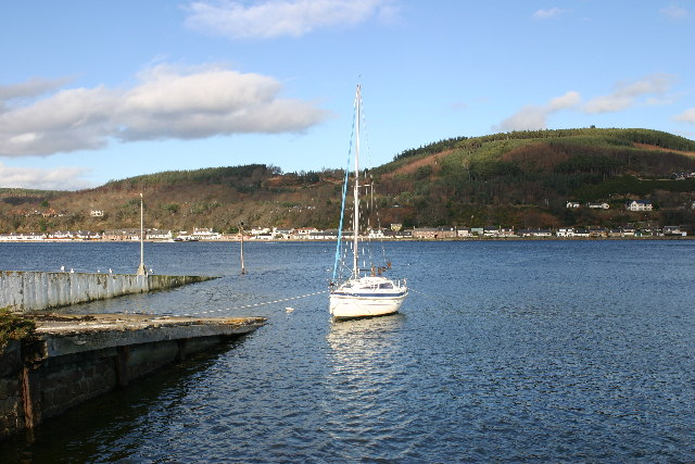 South Kessock pier. Looking NNE across Beauly Firth; Ord Hill Fort in right background.